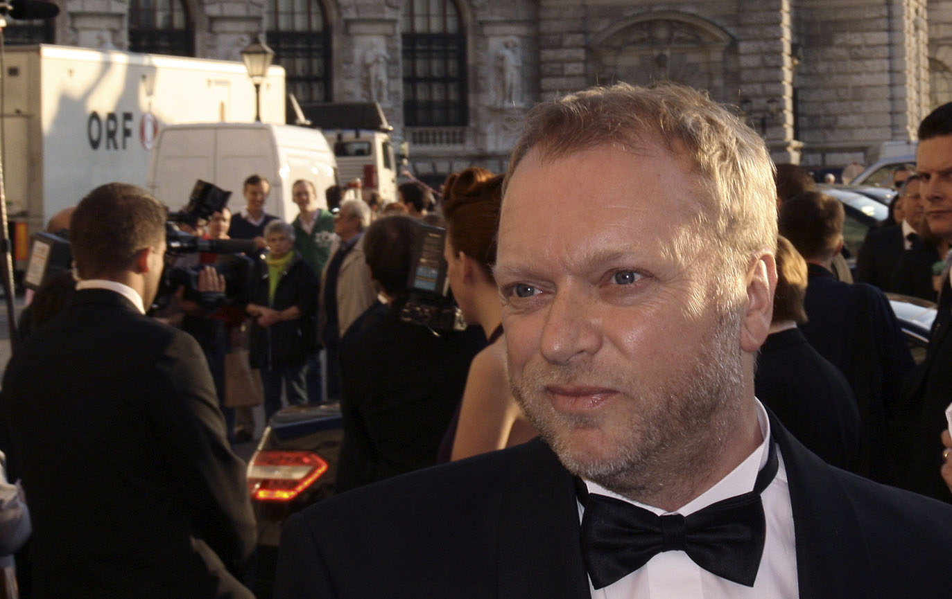 Reinhard Nowak at the Romy TV awards (Hofburg Imperial Palace in Vienna)